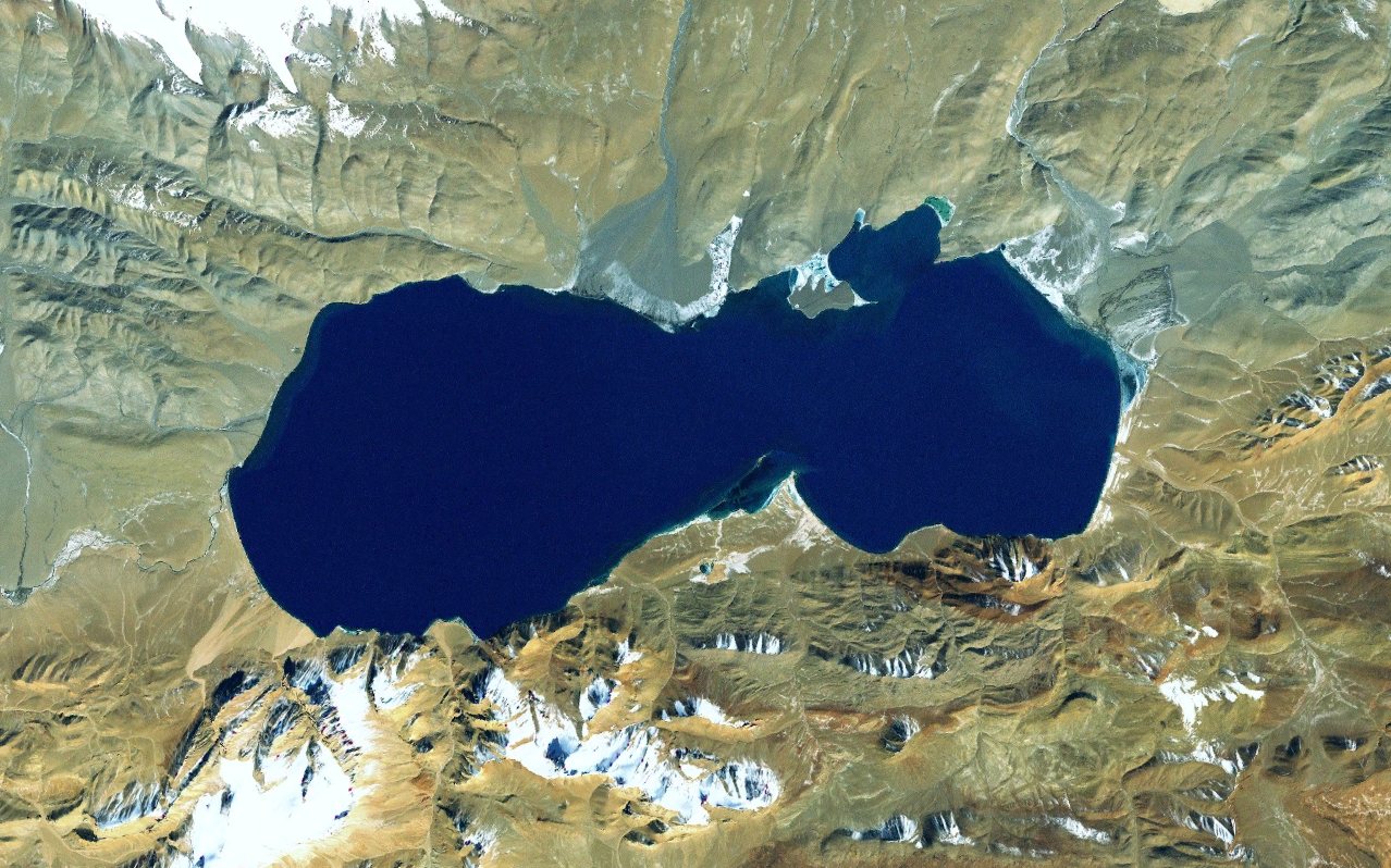 Satellite Image of Guozha Cuo, Tibet, China